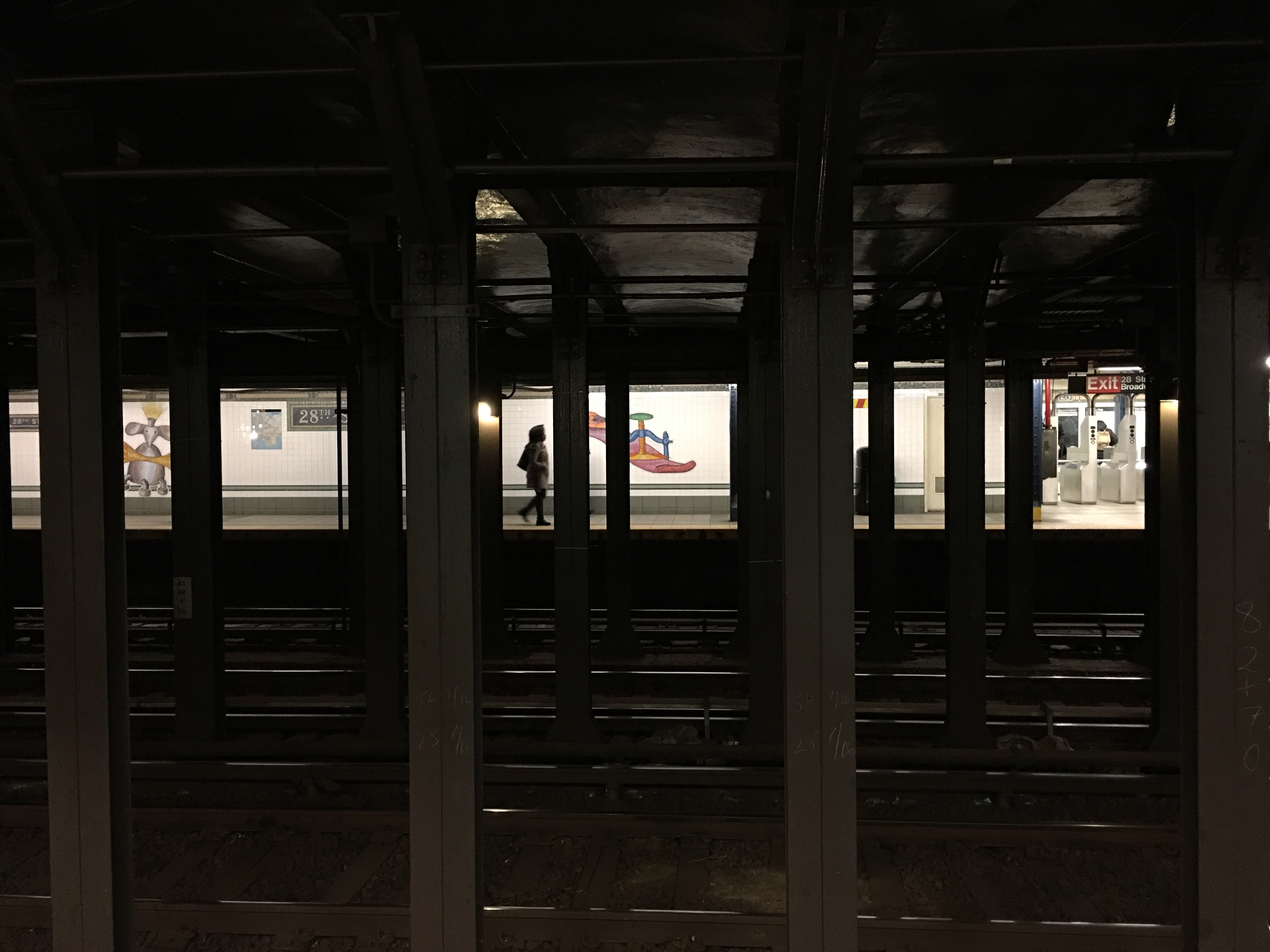 紐約地鐵, 曼哈頓, 紐約, 紐約市, 美國, 美利堅合眾國, New York City Subway, Manhattan, New York, New York City, The City of New York, United States of America, United States, America, The States, USA, US